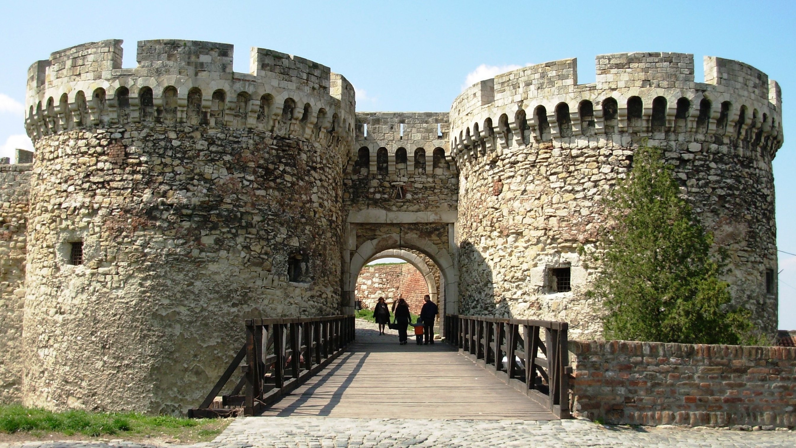 Zindan kapija is a Middle eve gate in Belgrade fortress on Kalimegdan, Belgrade, Serbia